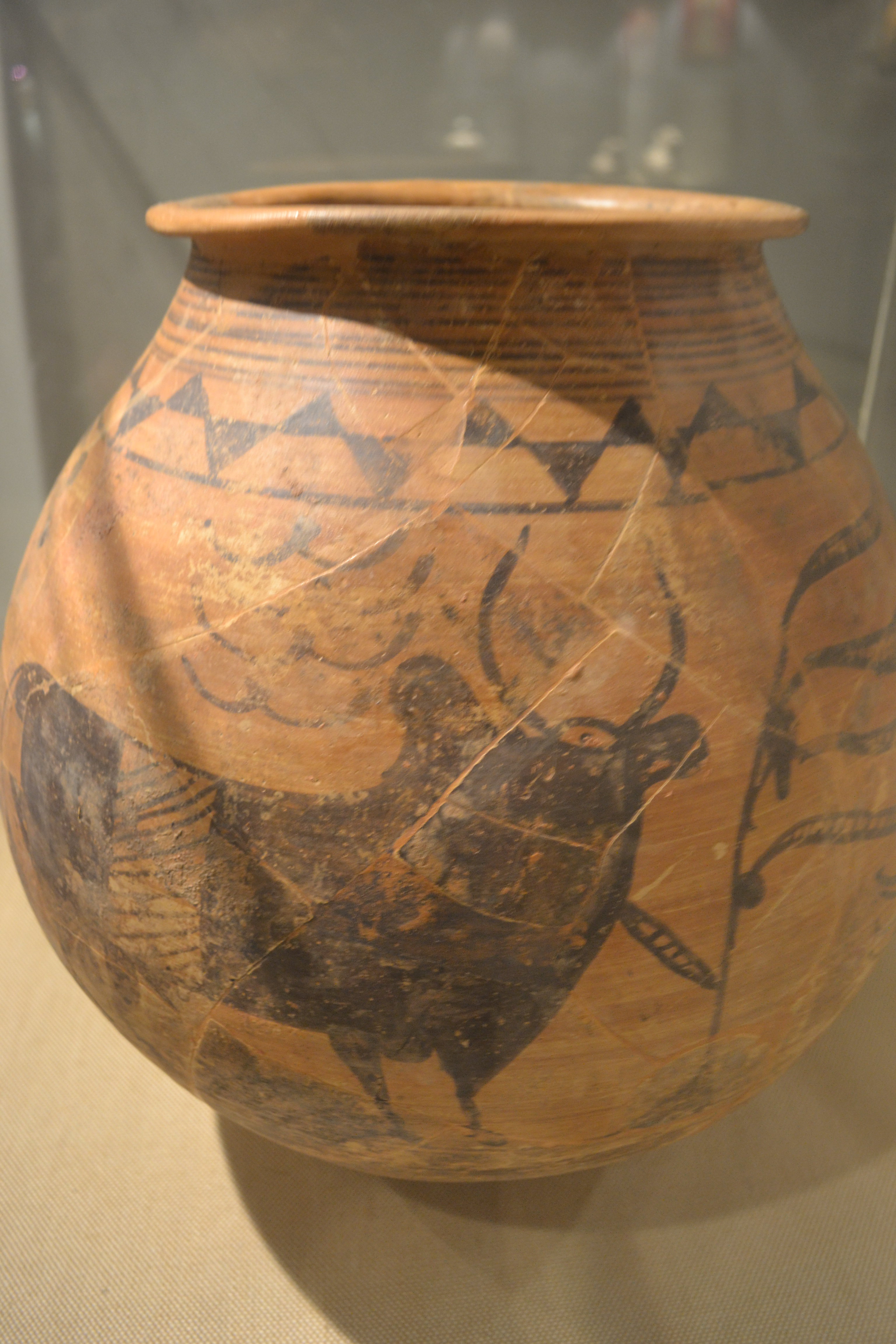 Naushahdu Matka is a jar is made around (2700 - 1800 BC) is in Islamaabd found in Naushahro